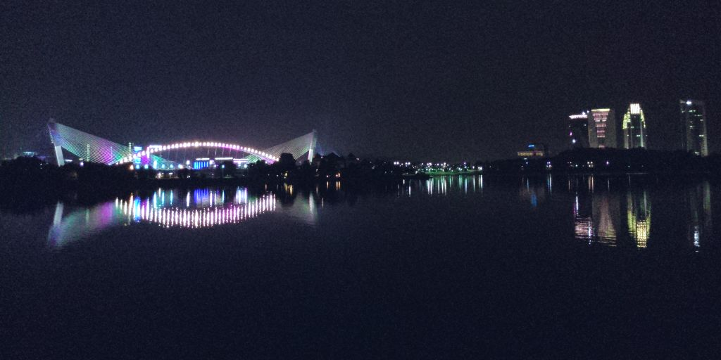 Night view at Cyberjaya Lake Garden